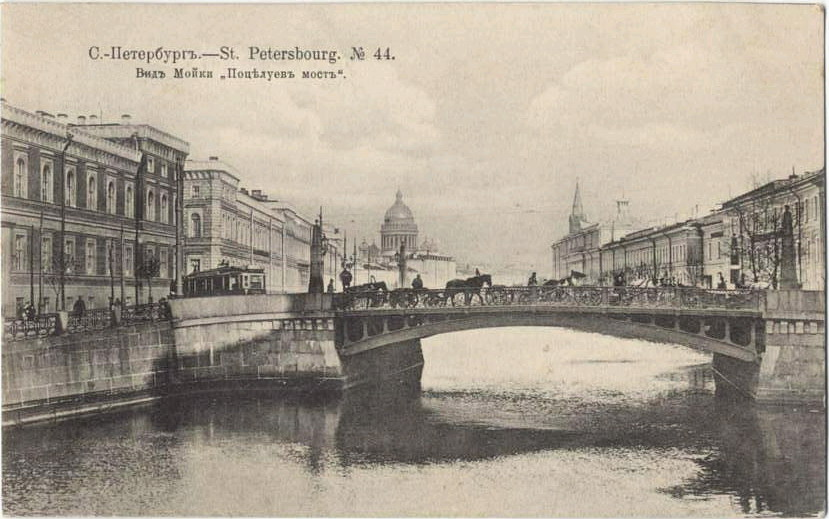 1914 postcard with a view of Potseluev Bridge across the Moika River in Saint Petersburg.